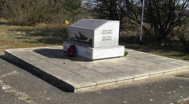 American "Carpetbaggers" War Memorial : memorial to USAAF 492nd and 801st Bombardment groups which served at RAF Harrington during World War II.